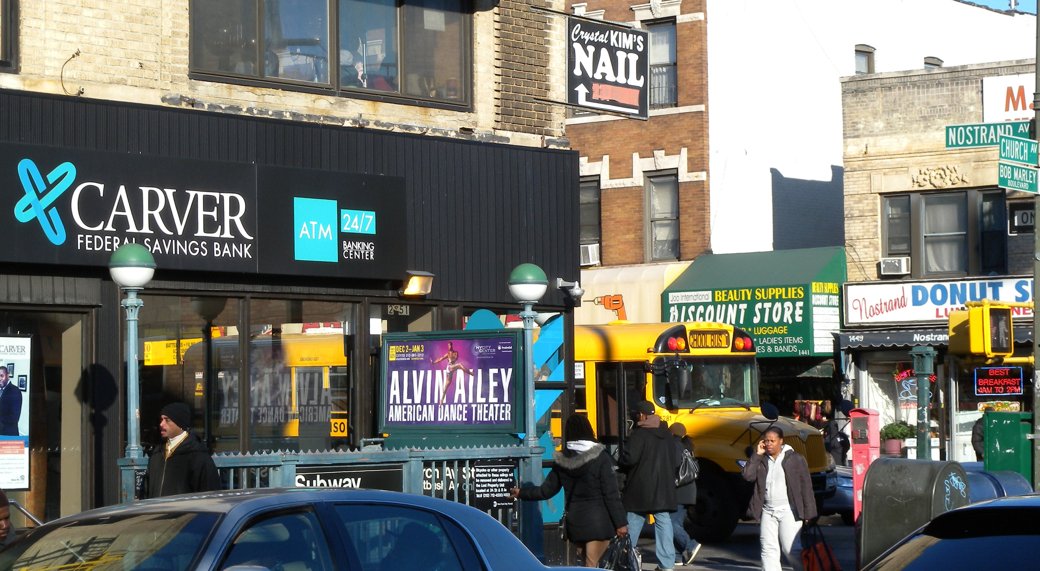 Looking northeast across Church Avenue, at Church Avenue (IRT Nostrand Avenue Line) station southbound stair.